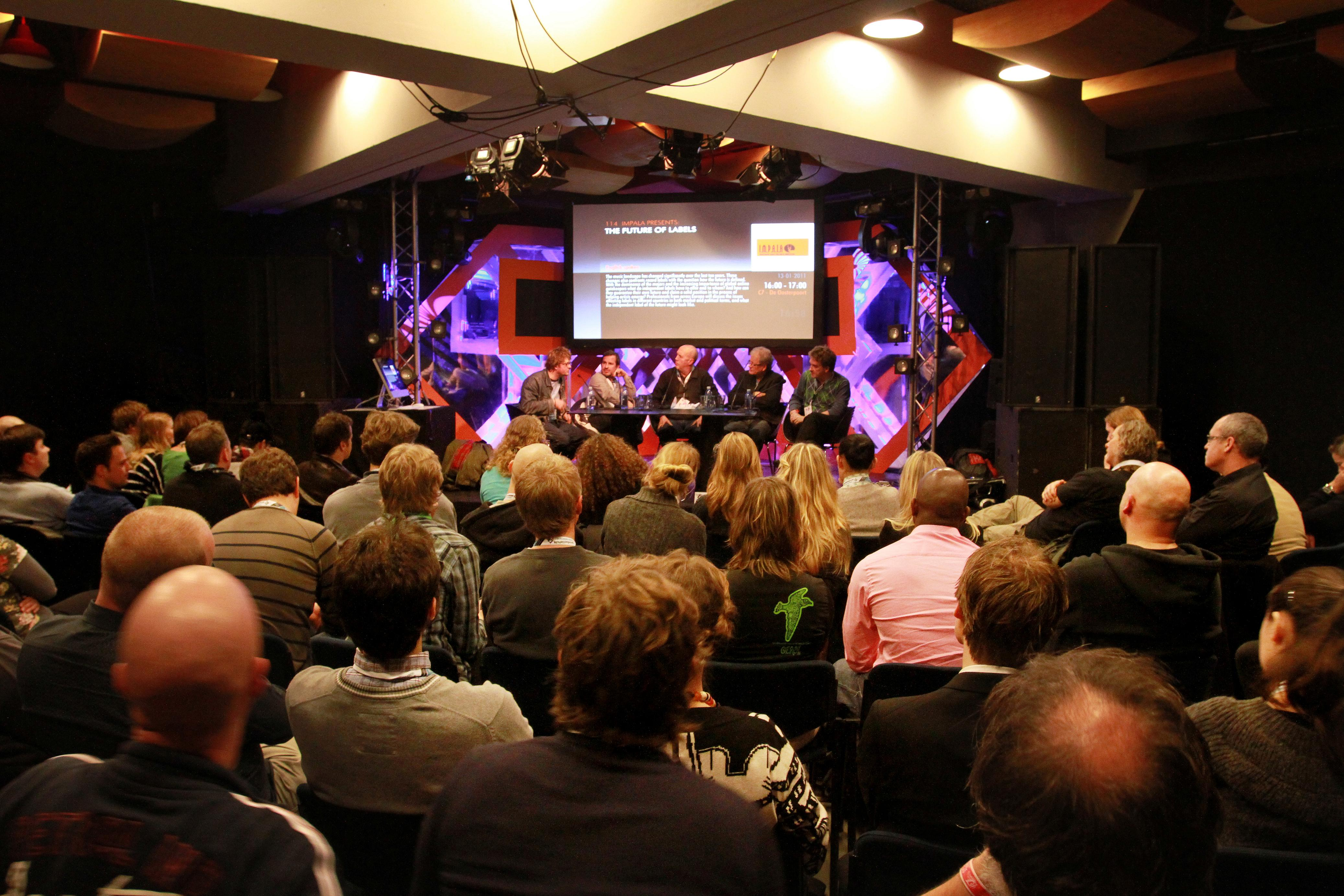 Eurosonic Noorderslag Conference 2012 - by Jack Tillmanns